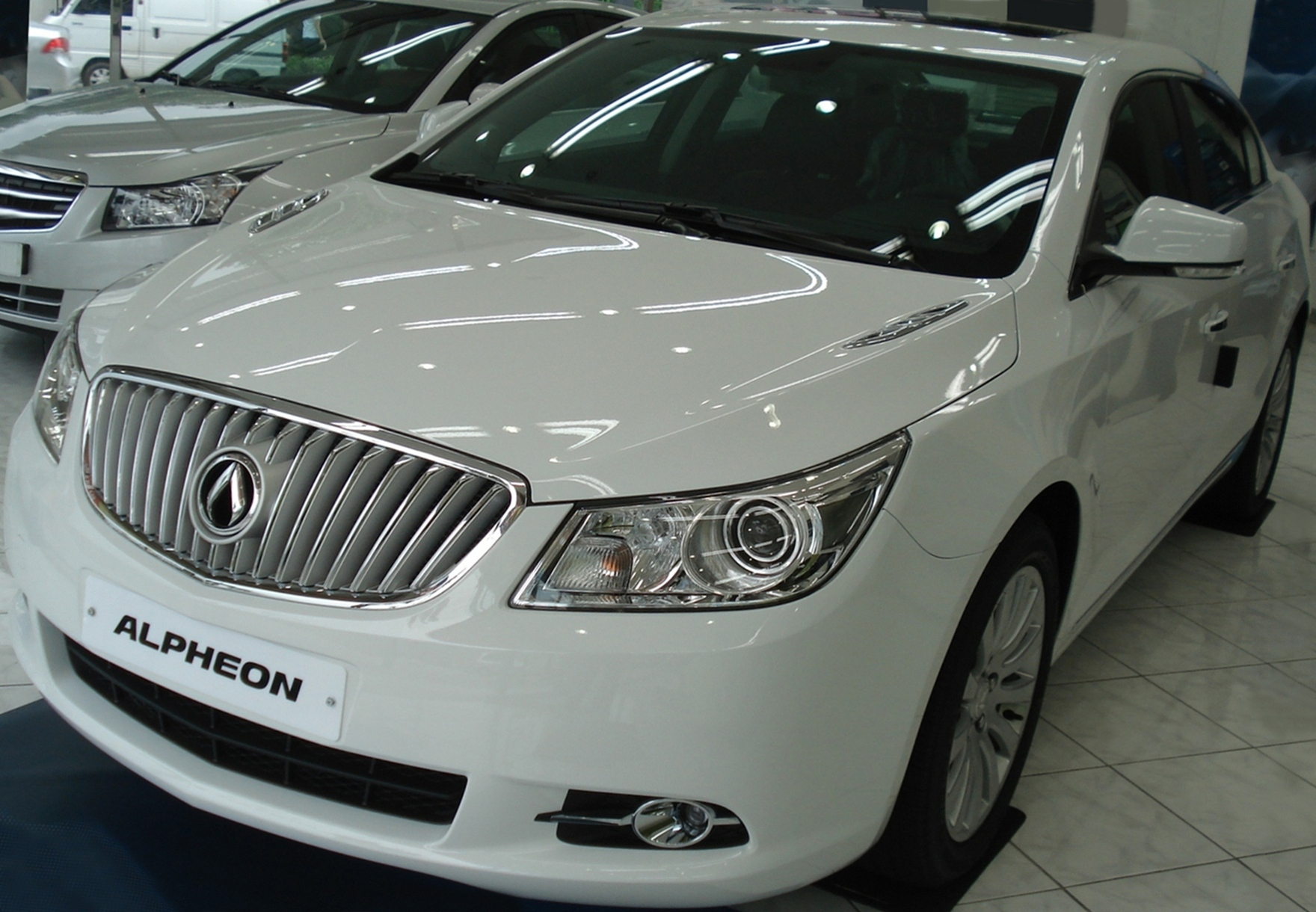 Daewoo Alpheon